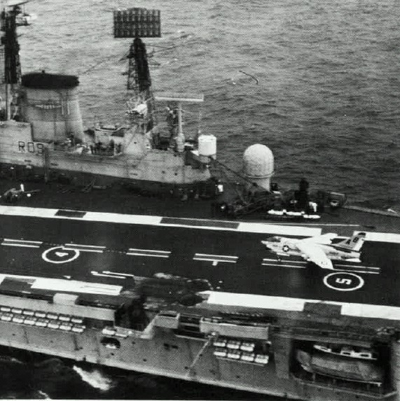 A U.S. Navy Vought A-7E Corsair II of Attack Squadron 46 (VA-46) "Clansmen", Carrier Air Wing 1 (CVW-1), from the USS John F. Kennedy (CV-67), landing on the Royal Navy aircraft carrier HMS Ark Royal (R09) in 1976.